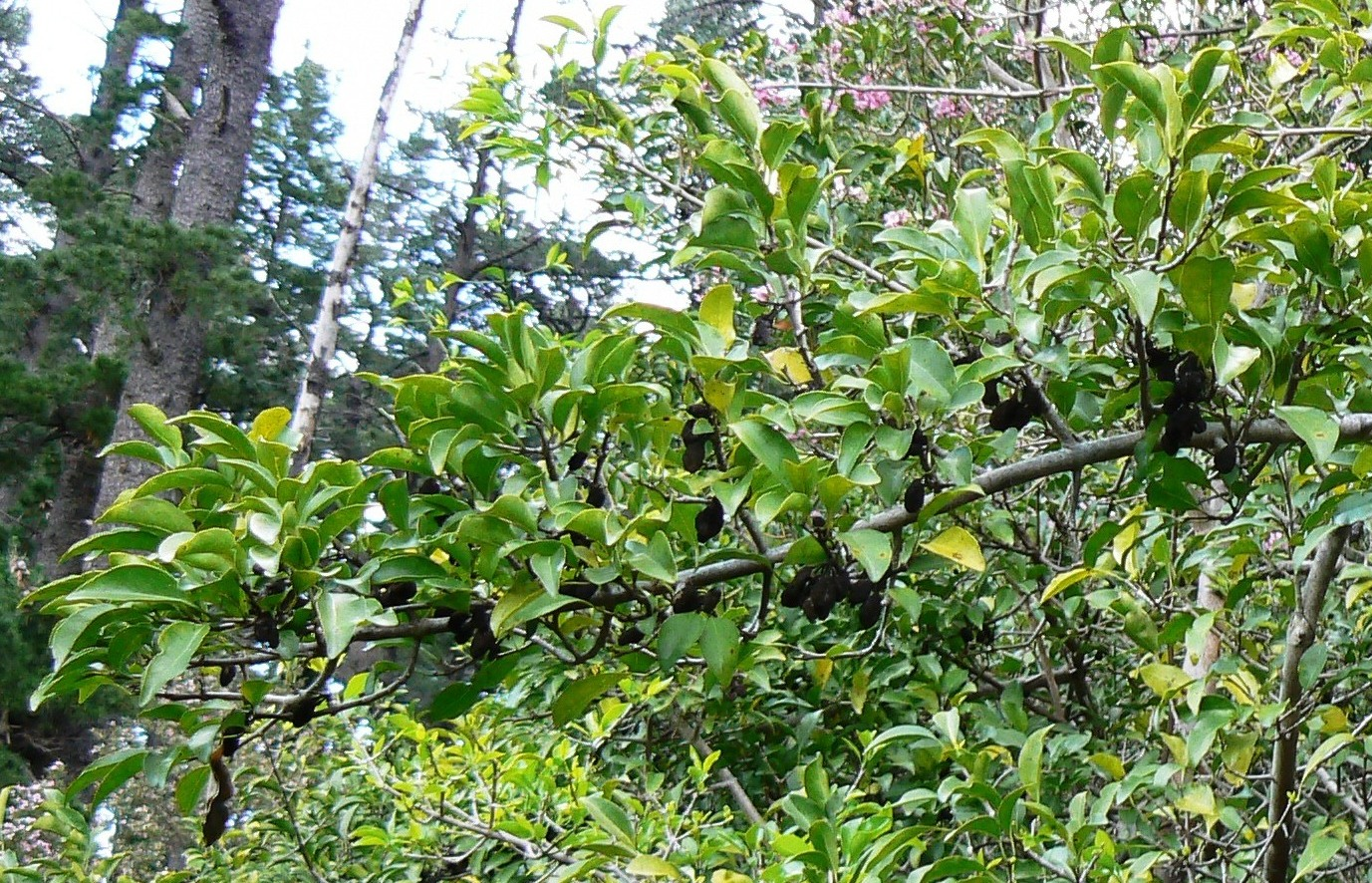 Fruits of a Turkey-berry (Canthium inerme - Cape Town